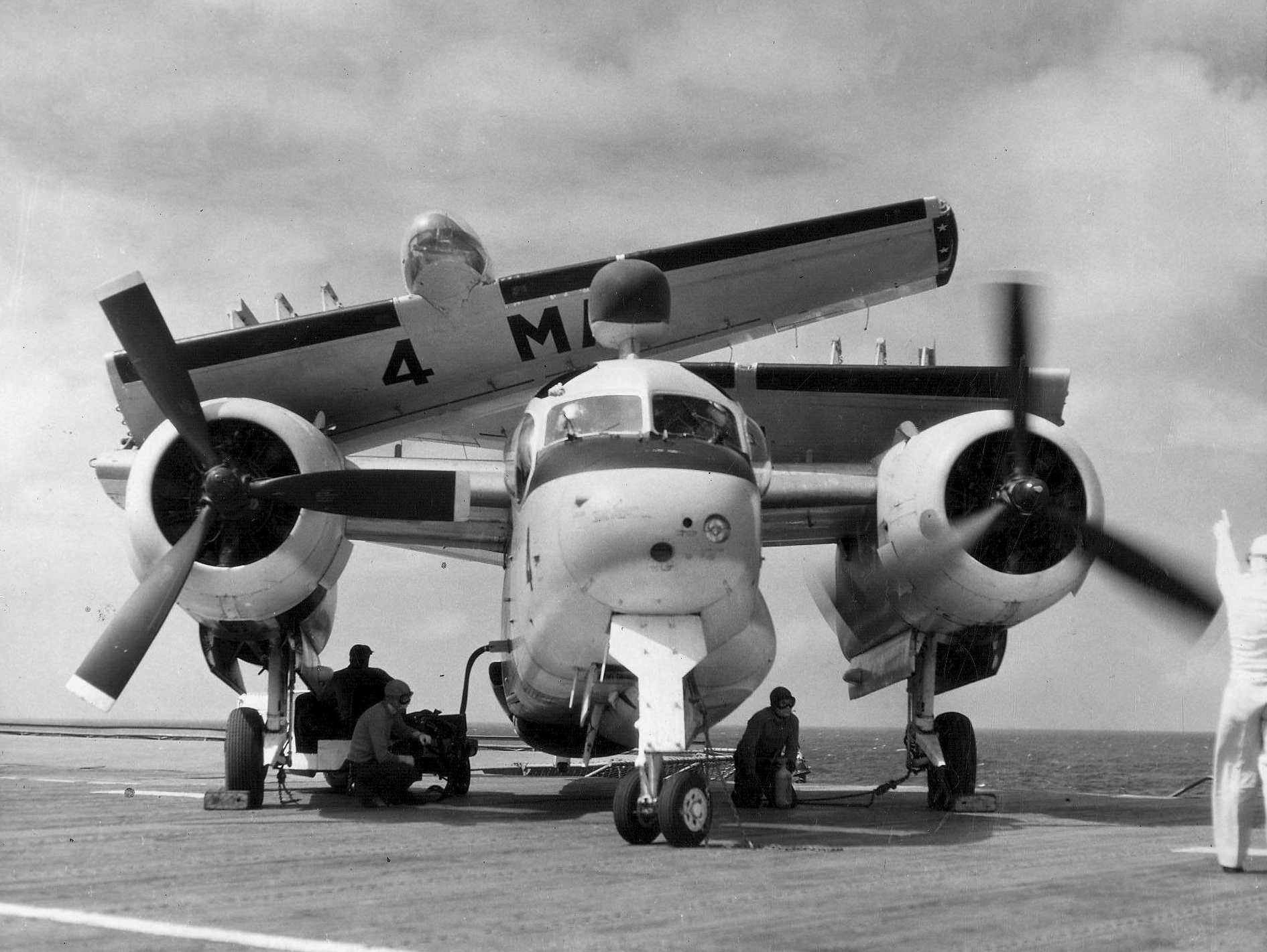 A U.S. Navy Grumman S2F-1 Tracker of Anti-Submarine Squadron VS-27 "Pelicans" aboard the aircraft carrier USS Tarawa (CVS-40).